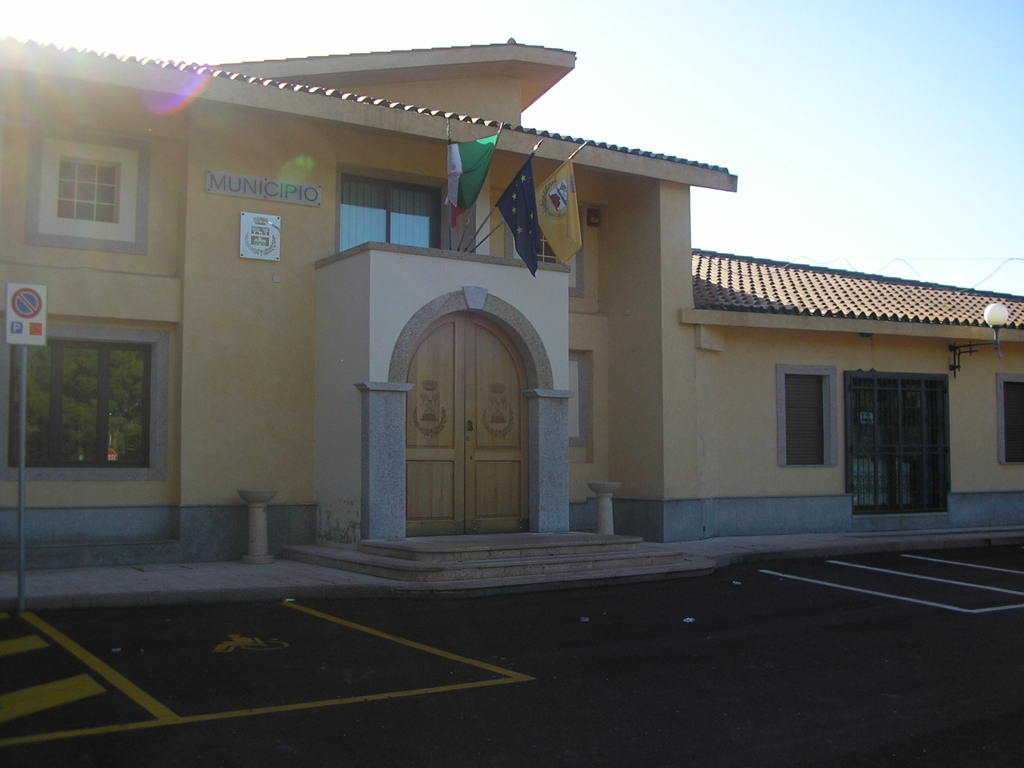 The town hall of Castiadas, Sardinia, Italy, located in the Olia Speciosa village